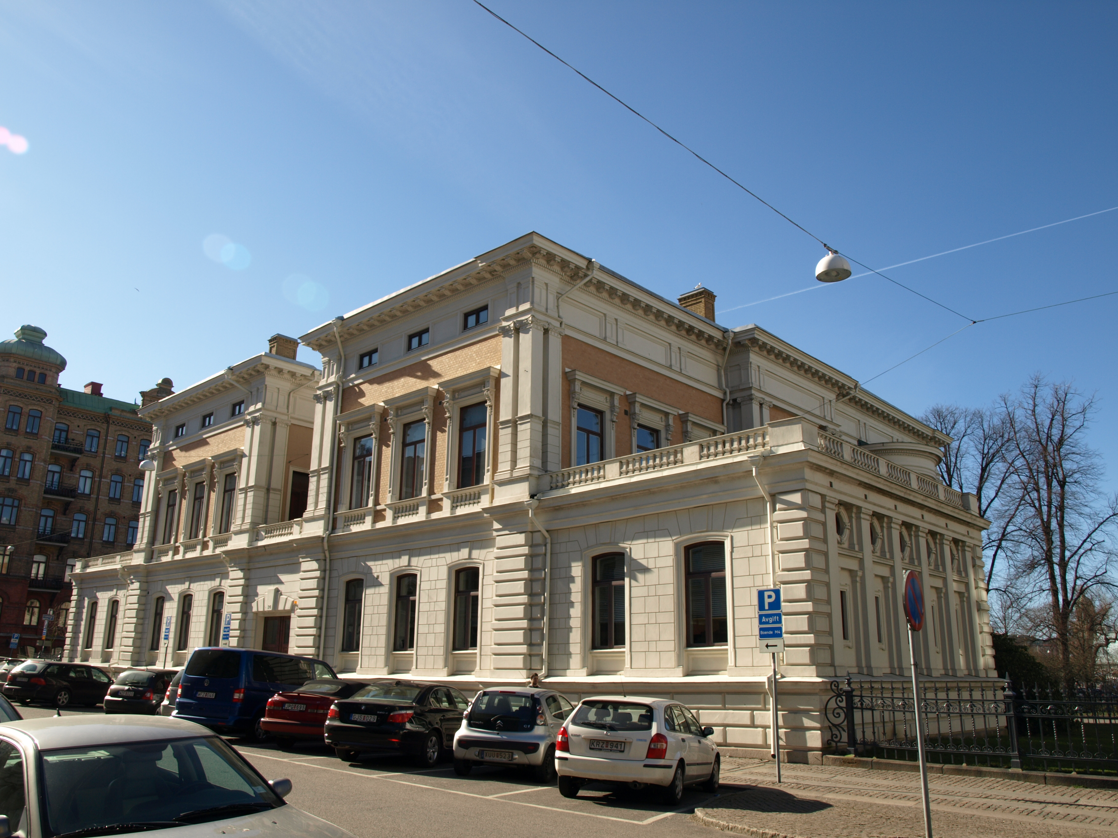 'Wernerska villan', Gothenburg, Sweden